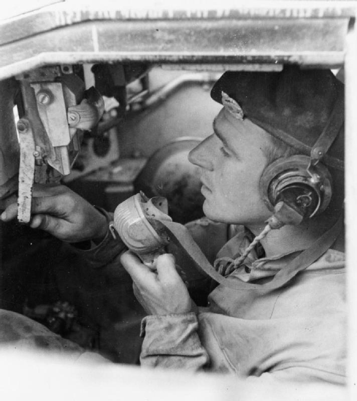 The British Army in North Africa 1942 View inside the driver's compartment of a Valentine tank, showing the driver talking into the intercom, 27 March 1942.